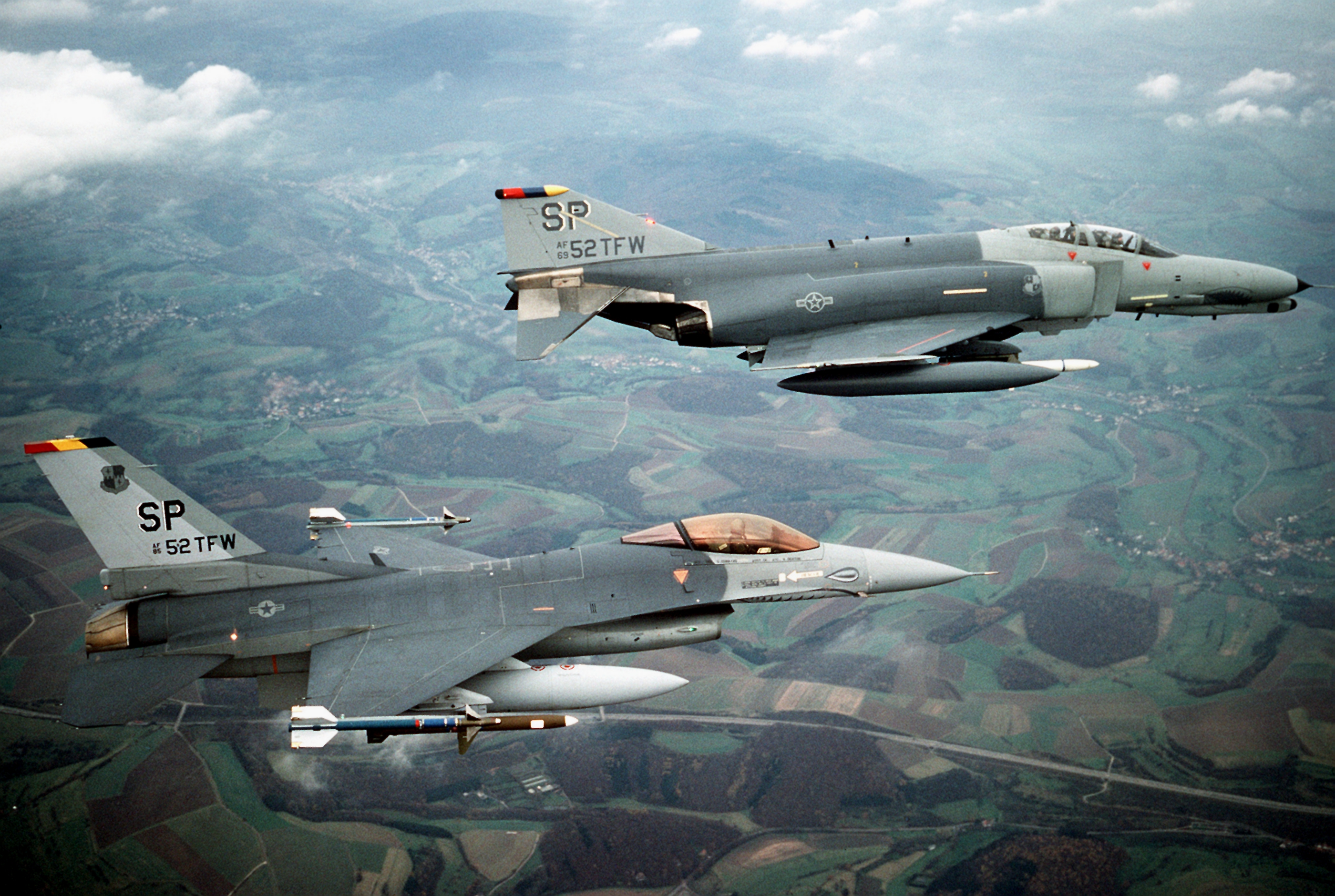 A U.S. Air Force General Dynamics F-16C Fighting Falcon aircraft, foreground, and an McDonnell Douglas F-4G Phantom II Wild Weasel aircraft, both from the 52nd Tactical Fighter Wing, Spangdahlem Air Base, Germany, in flight over the Eifel (Autobahn A1 is visible below). Both aircraft carry AGM-88 HARM missiles.